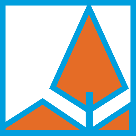 Coat of Arms of the Municipality of Arad, Israel.